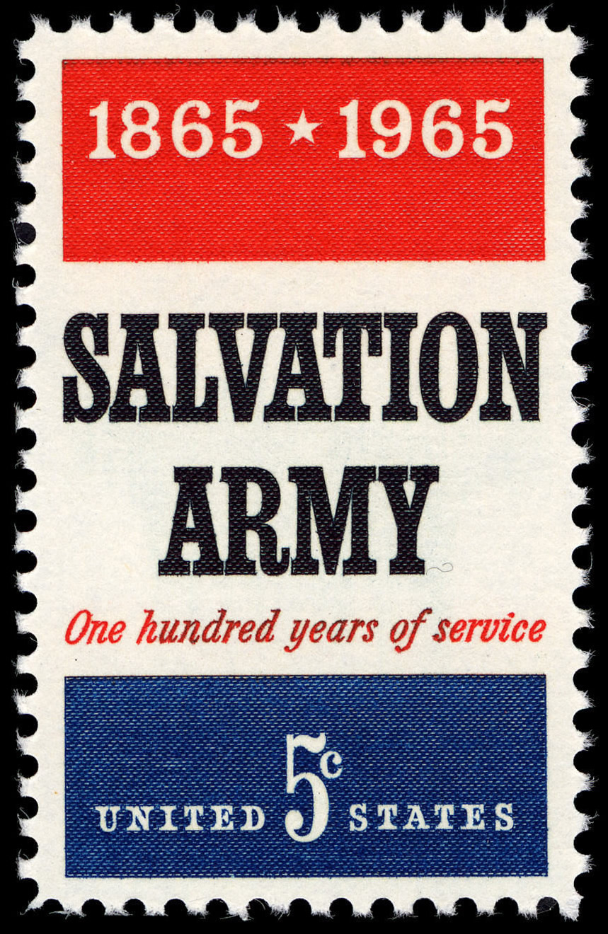 Salvation Army Issue - 1865-1965 - One hundred years of service - 5-cent 1965 U.S. stamp.